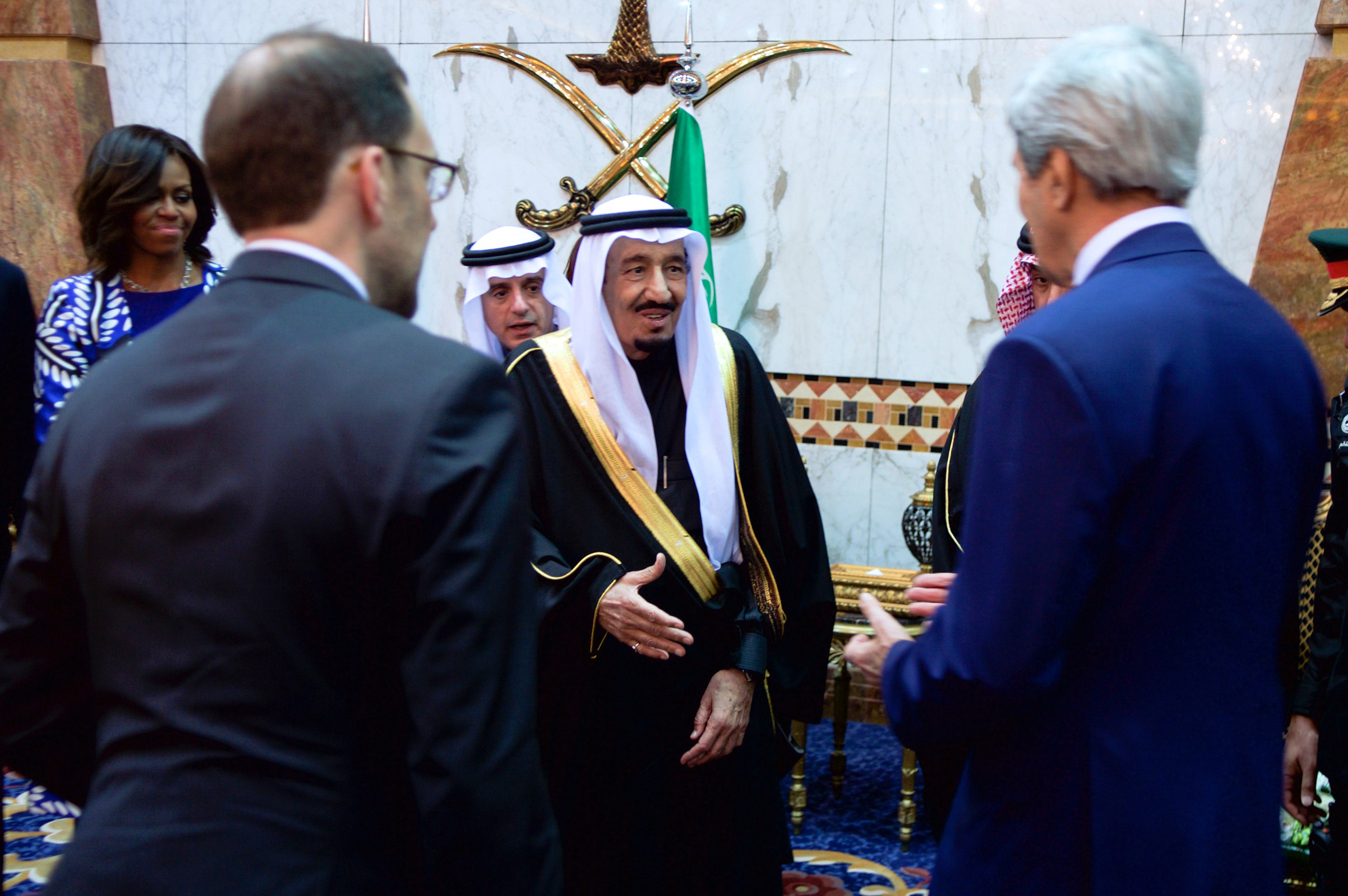 U.S. Secretary of State John Kerry greets the new King Salman of Saudi Arabia at the Erqa Royal Palace in Riyadh, Saudi Arabia, on January 27, 2015, after joining President Obama, First Lady Michelle Obama, and other dignitaries in extending condolences to the late King Abdullah. [State Department photo/ Public Domain]